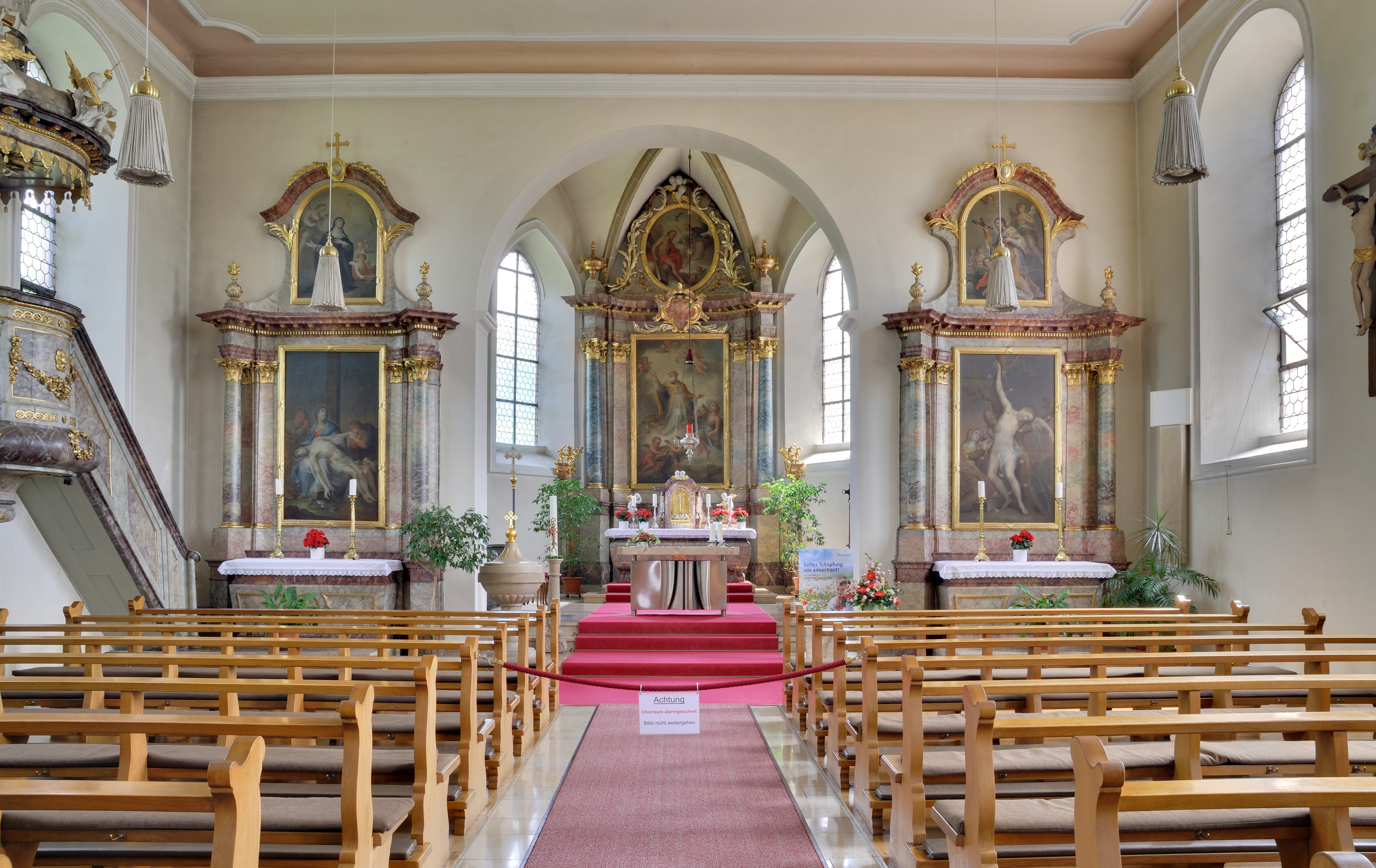 Bad Bellingen: Saint Leodegar Church